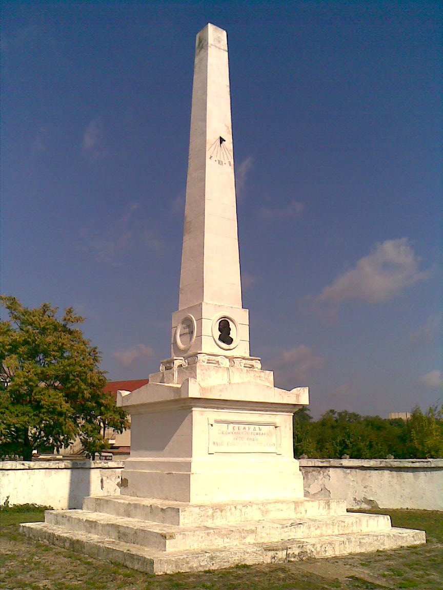 John Govard memorial in Kherson